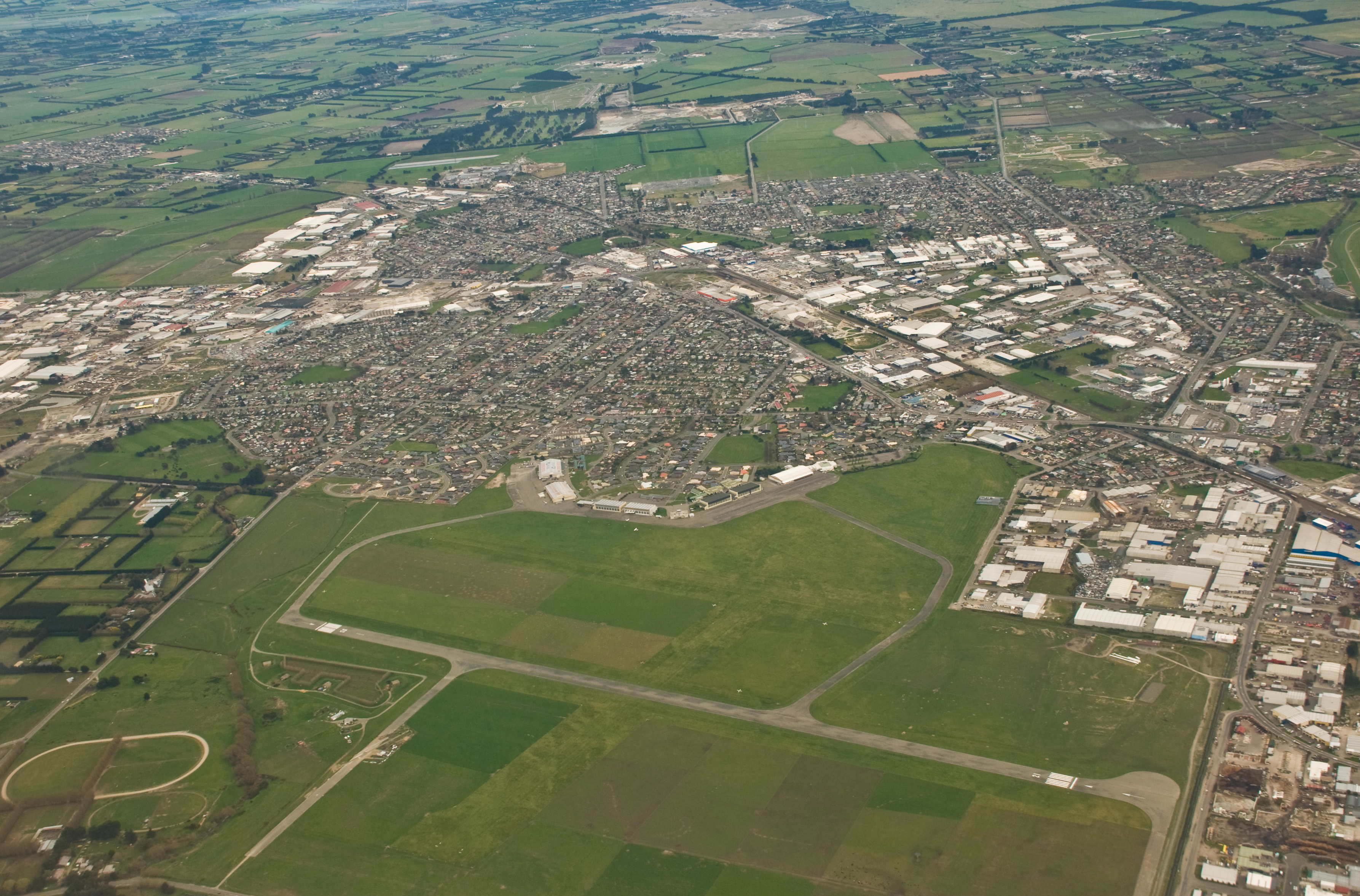 Wigram Airfield, Christchurch, New Zealand, 2 September 2008. Seen on downwind leg for Christchurch International. This historic airfield is soon to disappear.